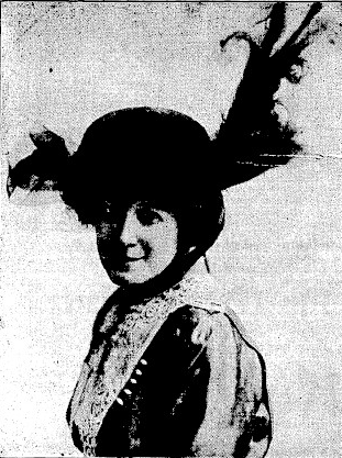 Rose Stahl, 1912